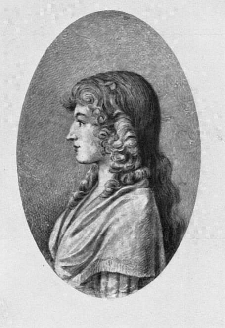 Portrait of Christiane Luise Amalie Becker (1778-1797), German actress